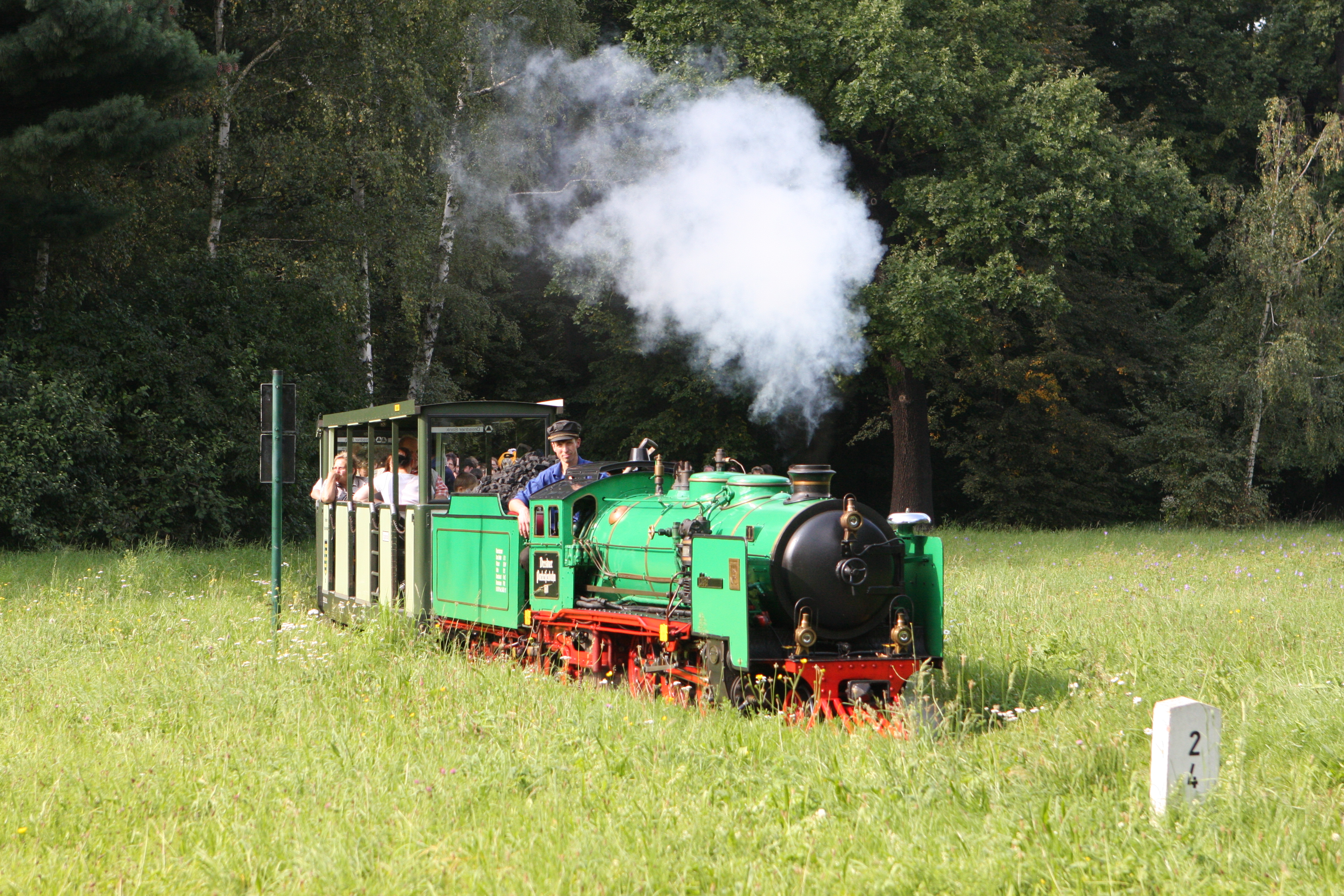 Dresden Park Railway